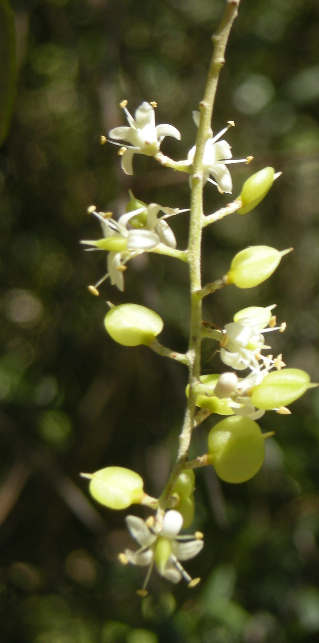 Bursaria spinosa flowers. Mount Archer National Park, Rockhampton, Central Queensland.